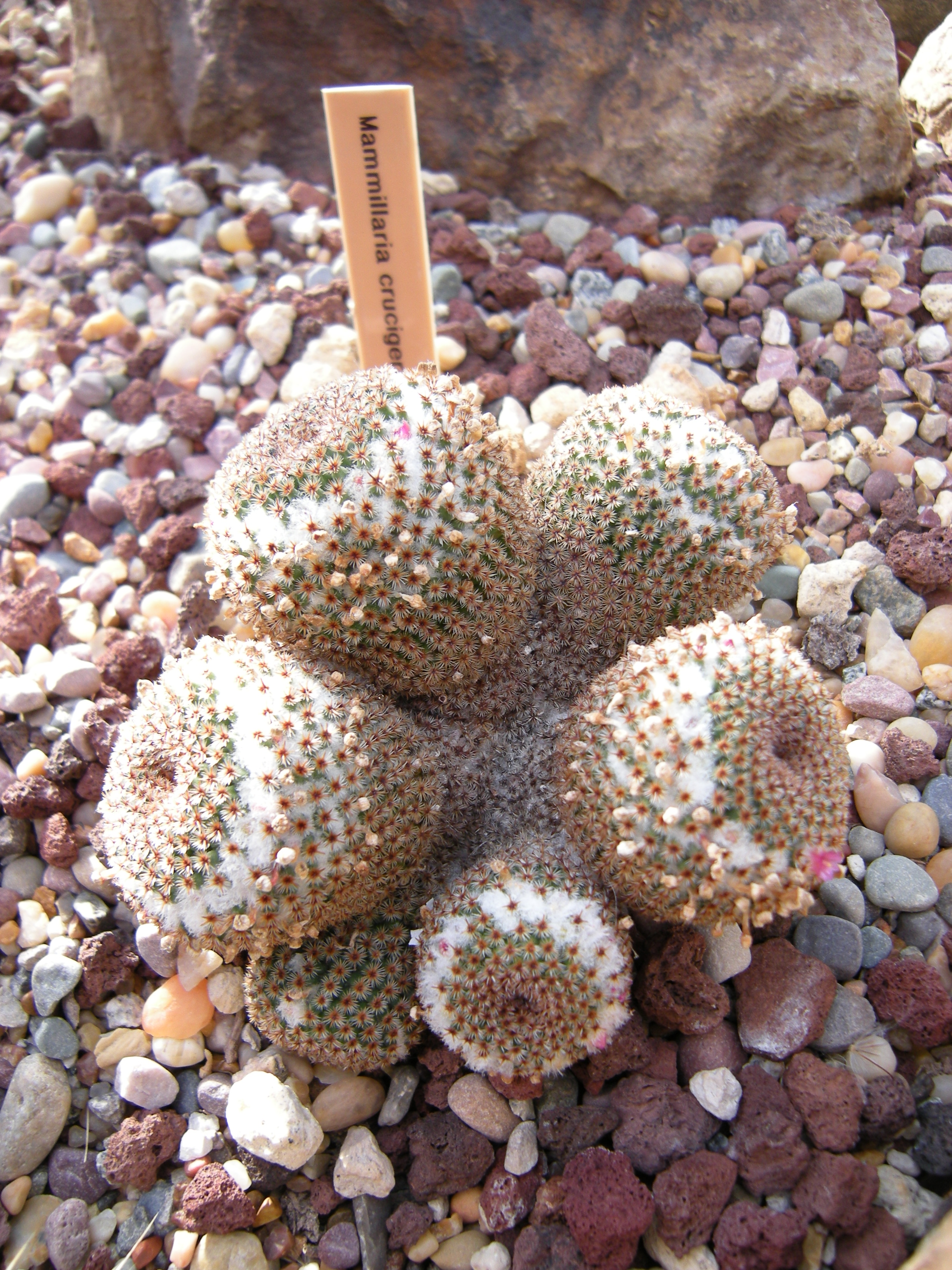 Mammillaria crucigera. Photographed at Volunteer Park Conservatory, Seattle, Washington.